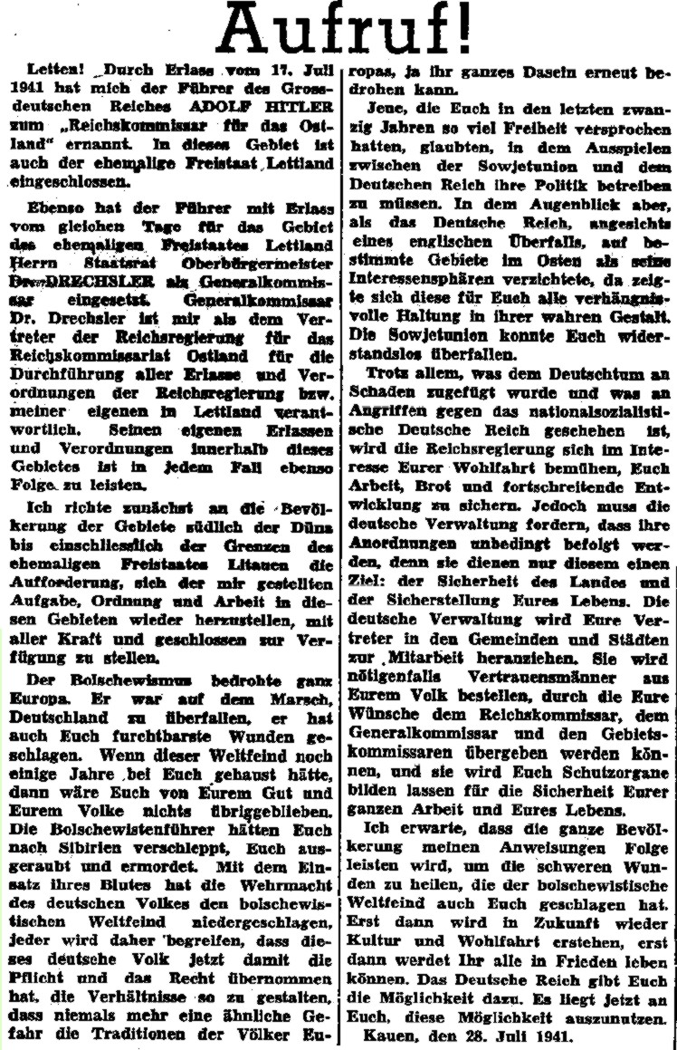 Scan of announcement of the Reich Commissar for the Ostland, Hinrich Lohse, to the Latvian people